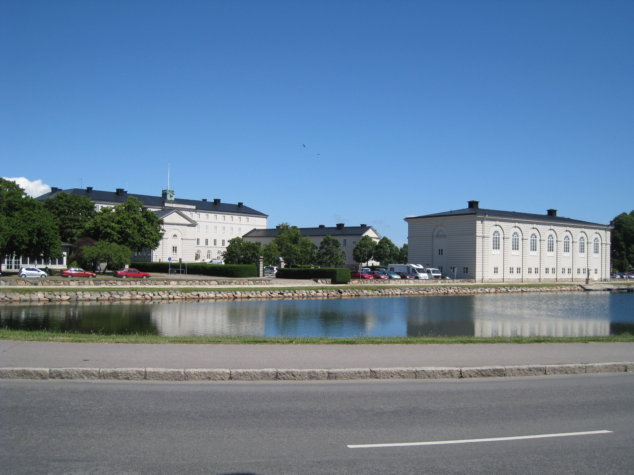 Stagneliusskolan, upper secondary school in Kalmar, Småland. Architect Ragnar Östberg, built in 1931-1932.